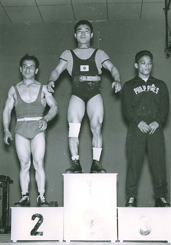 Weightlifting at the 1958 Asian Games, Tokyo Japan, 56kg, 1) Shigeo Kogure (JPN), 2) Mahmoud Namjoo (IRN), 3) Alberto Nobar (PHI)